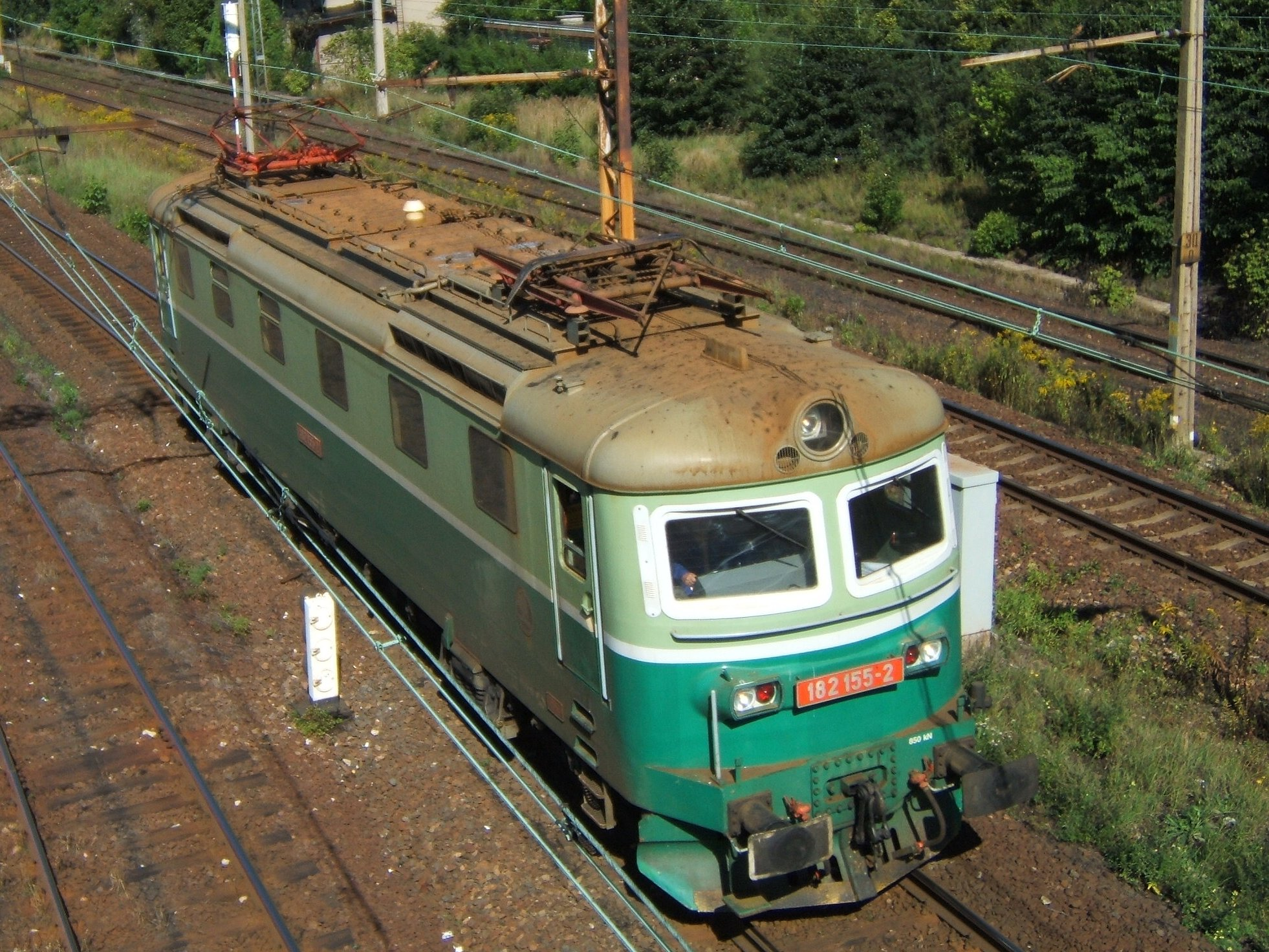 182 011-7 electric locomotive